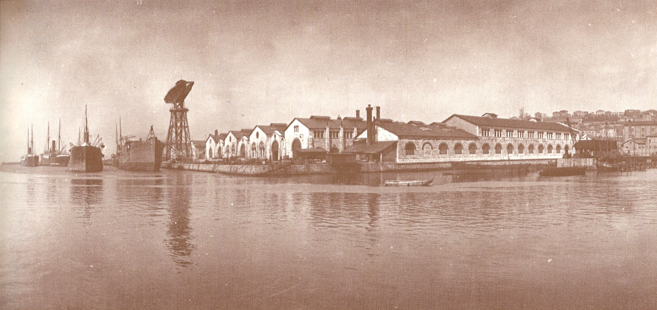 Lloydarsenal in Triest